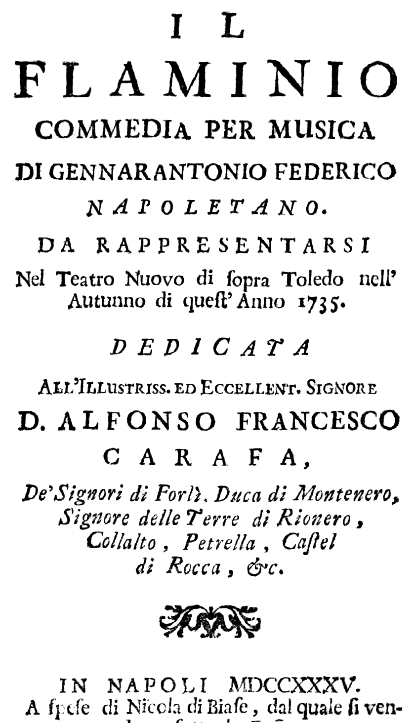 Giovanni Battista Pergolesi - Il Flaminio - titlepage of the libretto, Naples 1735